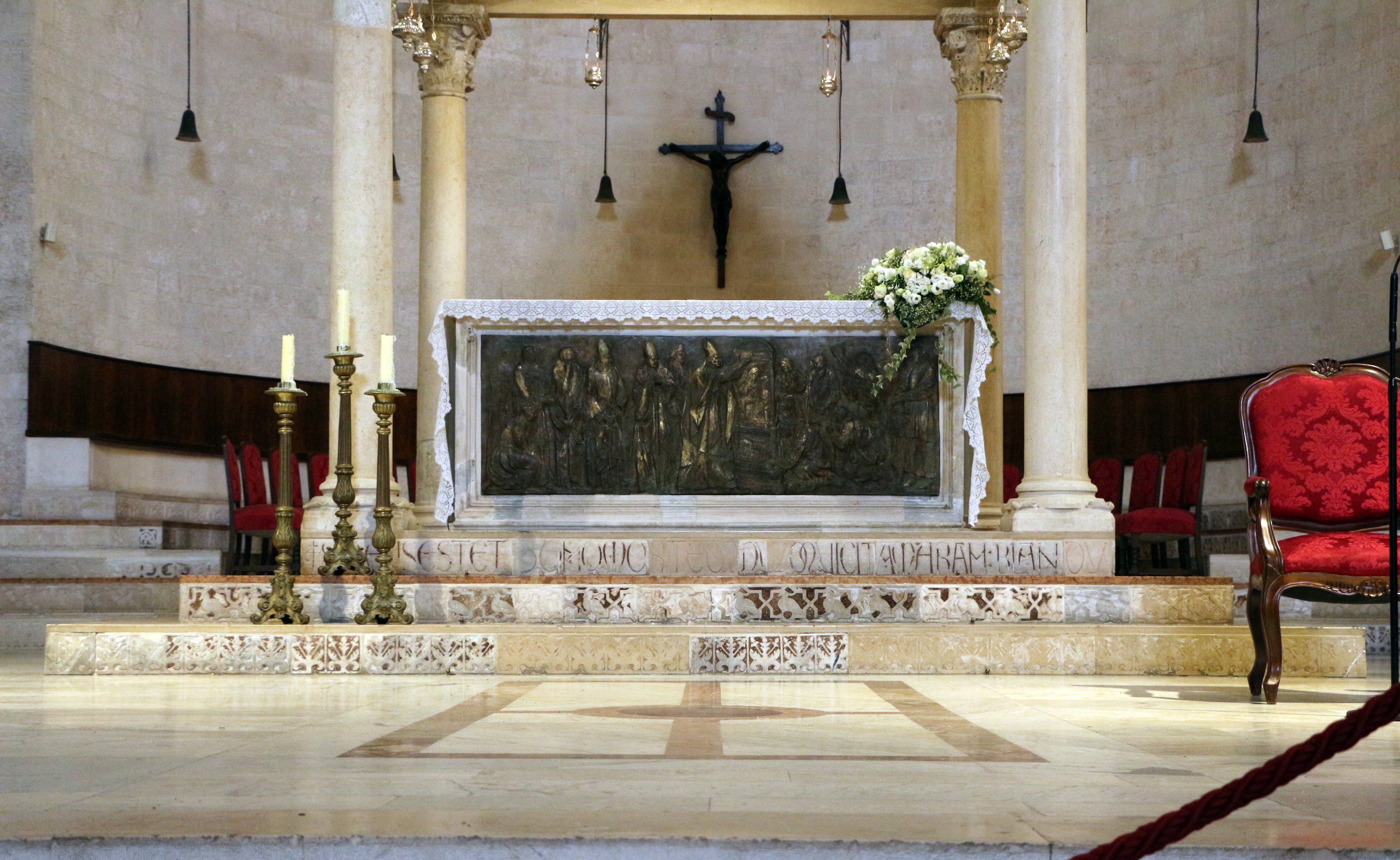 Cathedral (Bari)